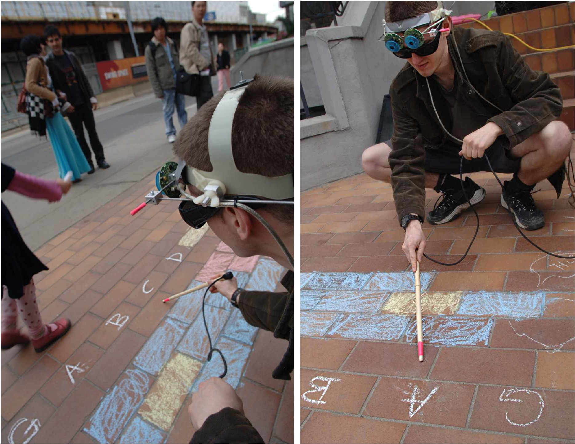 Scratch input using a stick, with computer-vision by wearable camera system. This is an image mosaic made from two pictures that I took myself on my own property (my own front porch) adjoining a public sidewalk, during a musical performance by one of my collaborators (Ryan). The chalk drawings shown in the picture are also entirely my own work: I drew the letters and indicia on the sidewalk myself with sidewalk chalk. Thus the picture is entirely my own work.